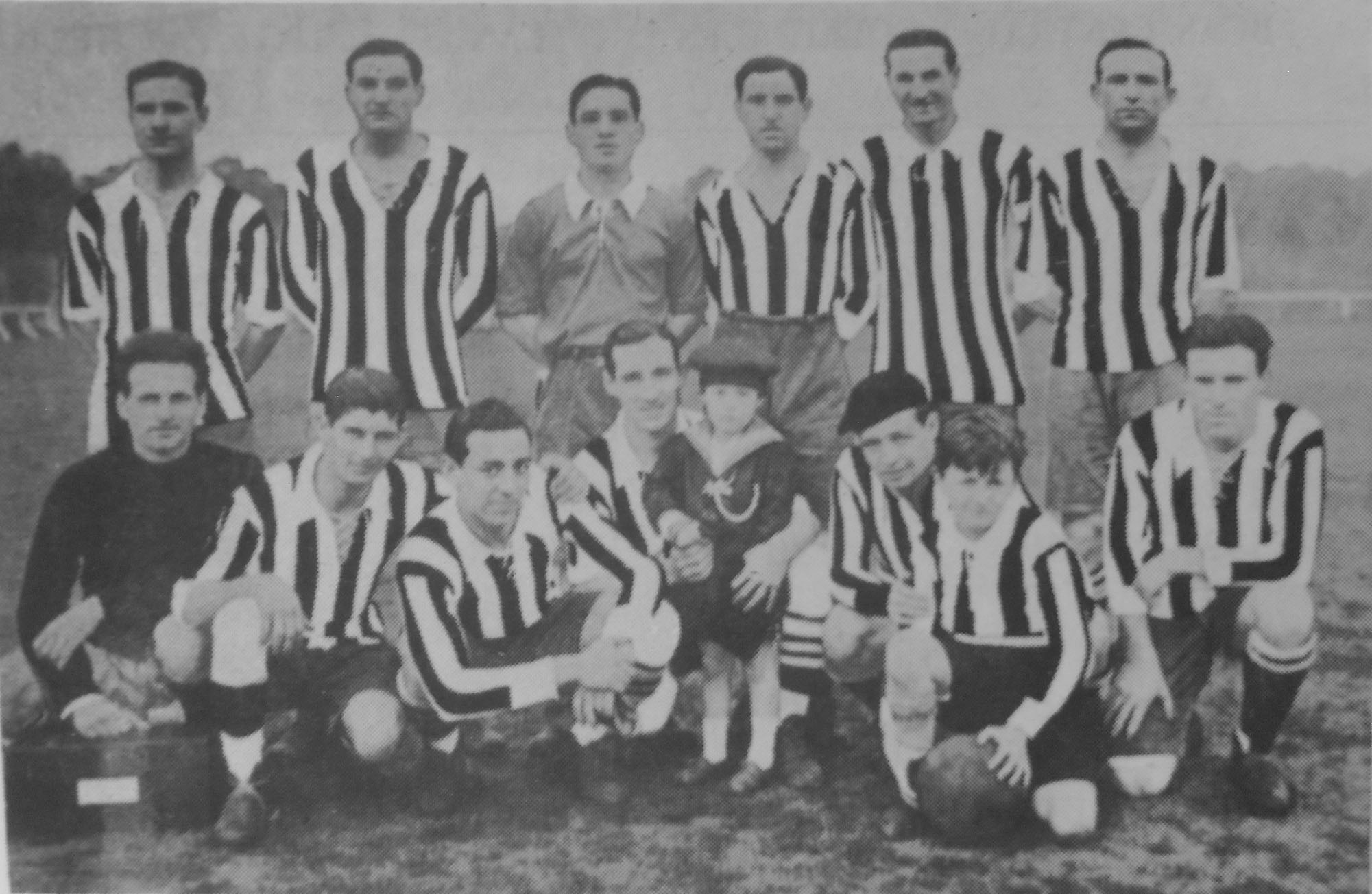 Argentine football team of Club A. Estudiantes (Caseros) in 1928. From left to right, Up: González, Diez, Miranda, Cartagena, Piazinibio, Berella. Down: Rodríguez, Victorica, Closas, Bosco, Cauhapé.